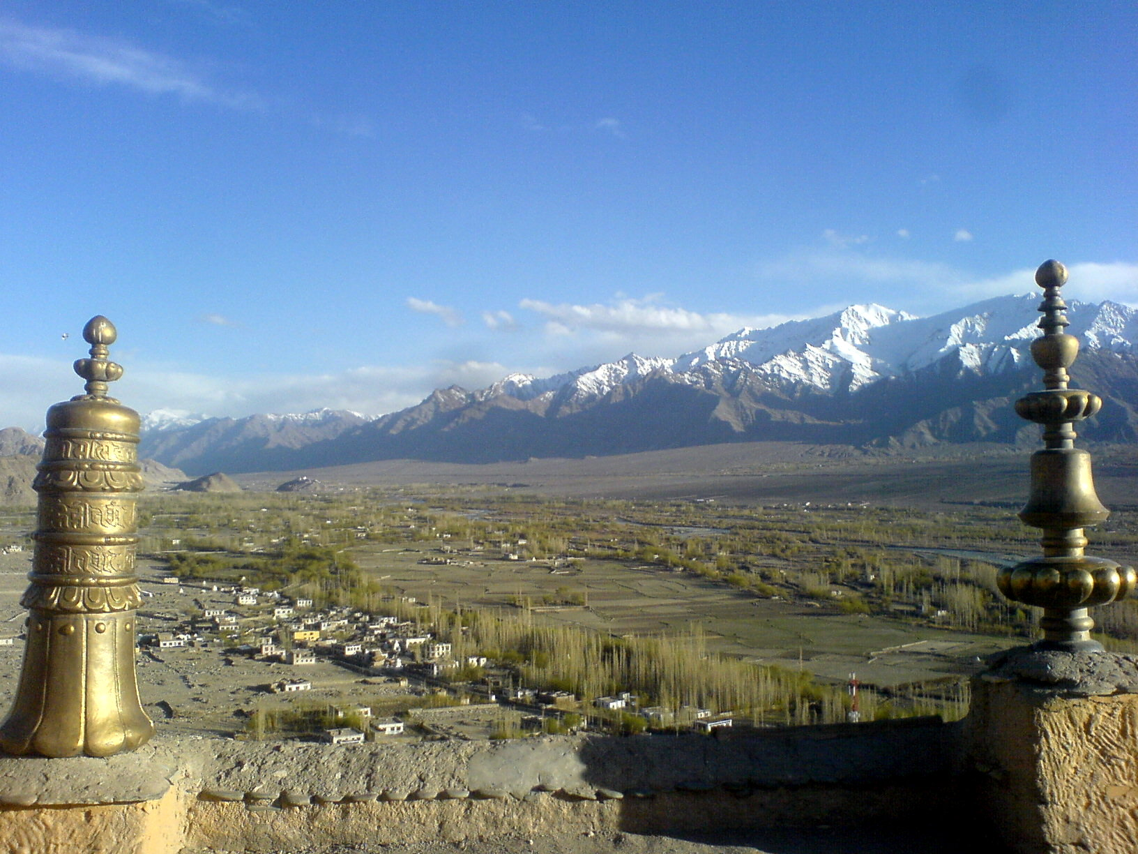 Ancient Gonpa